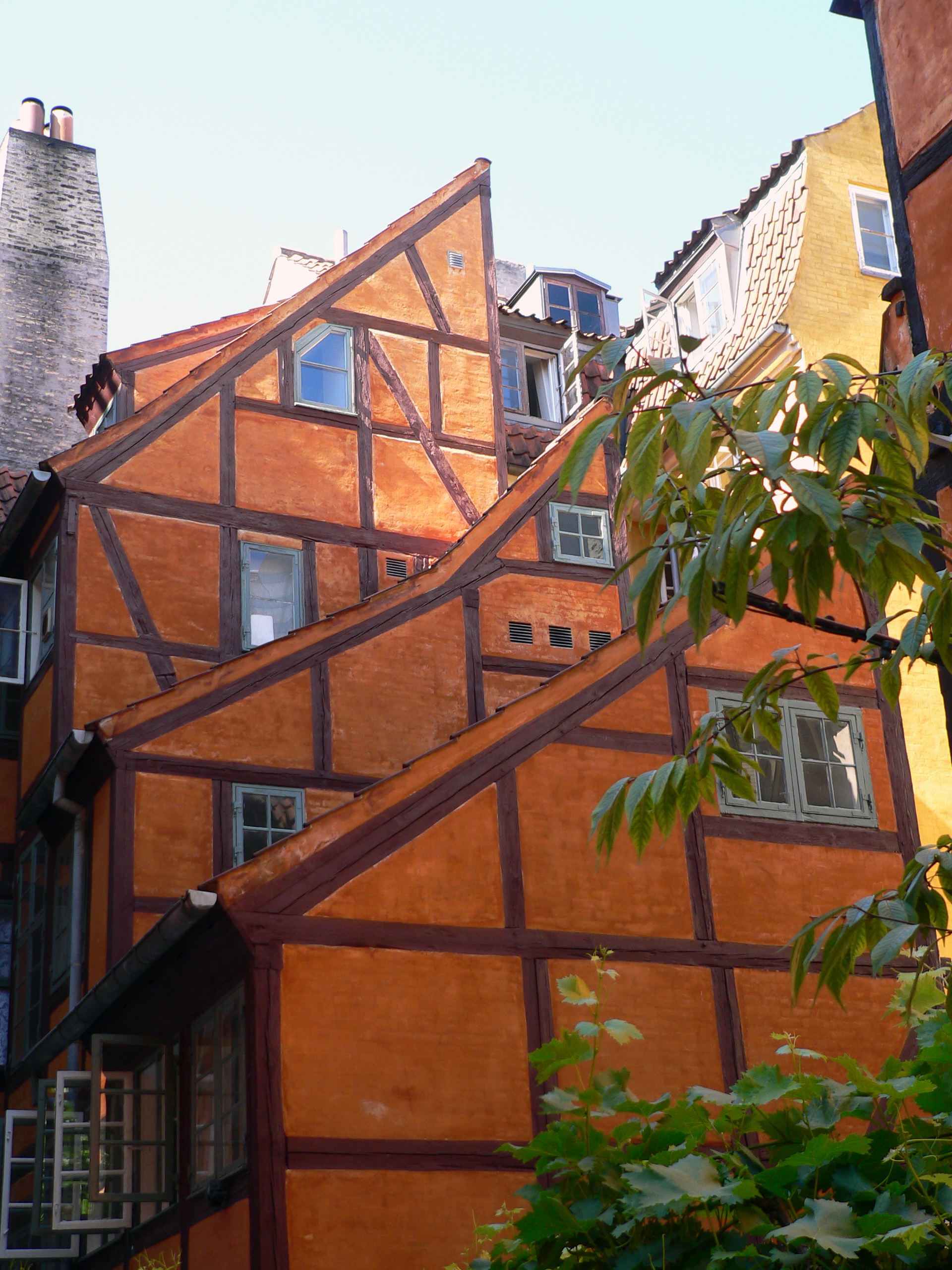 Baron Boltens Gård in central Copenhagen, Denmark